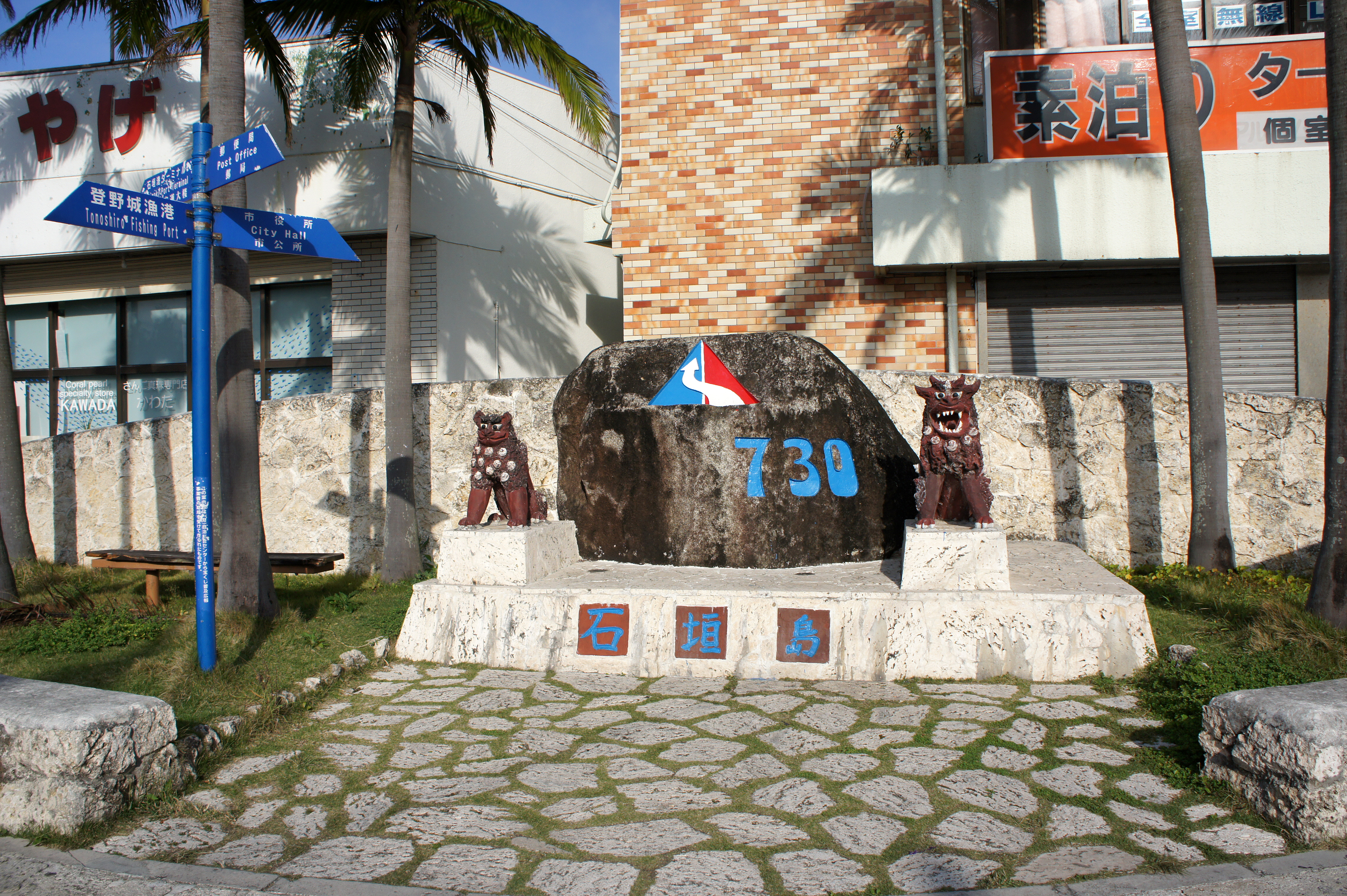 The 730 Crossing in Ishigaki Island, Ishigaki City, Okinawa Prefecture, Japan.